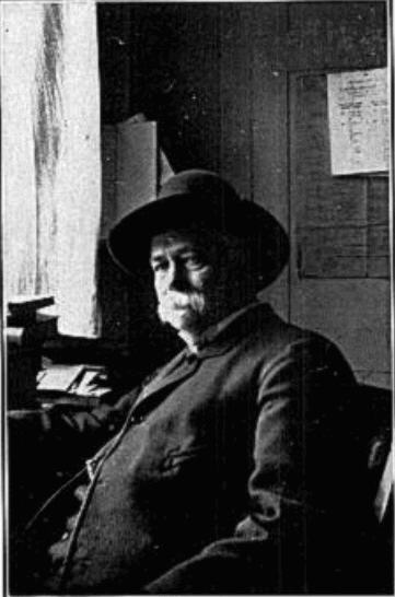 Tommaso Adlard Salvadori (30 September 1835 – 9 October 1923)